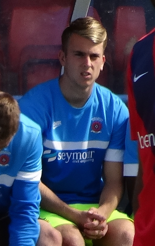 Rhys Oates playing for Hartlepool United against York City at Bootham Crescent, York on 15 August 2015